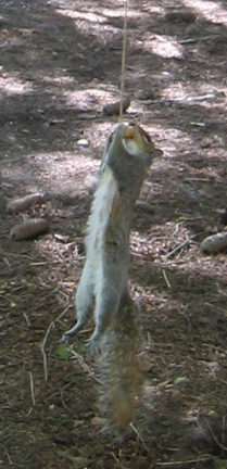 An example of squirrel fishing.